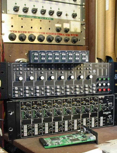 Stack of automixers produced by Dan Dugan. In front is the Yamaha Dugan-MY16 card, behind that on the bottom of the stack is a Dugan Model D. Above the D is a remote control unit for the Model D-2 and D-3. The half rack unit on top is a Model E-1. In the rack above and behind, with red labels, is the original prototype for the Dugan Music System demonstrated at AES in 1974. Above that with the white faceplate is a Model A, the six-input variant.